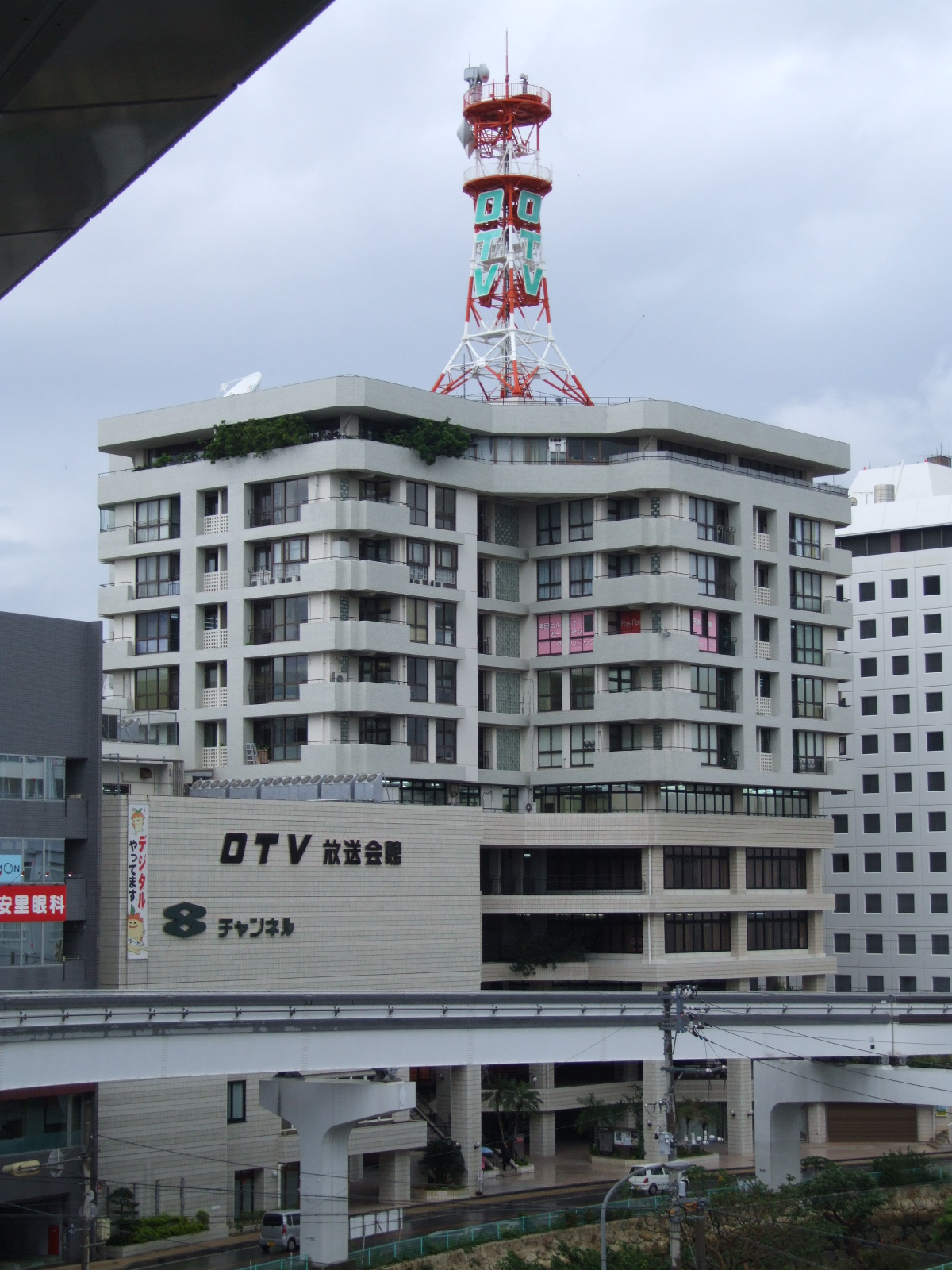 Head Office of Okinawa Television